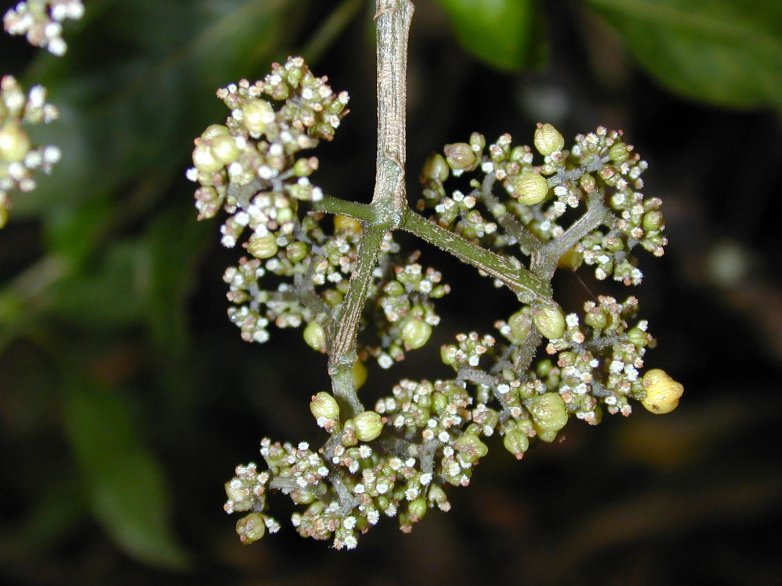 Urera glabra (flowers and fruits). Location: Maui, Makawao Forest Reserve